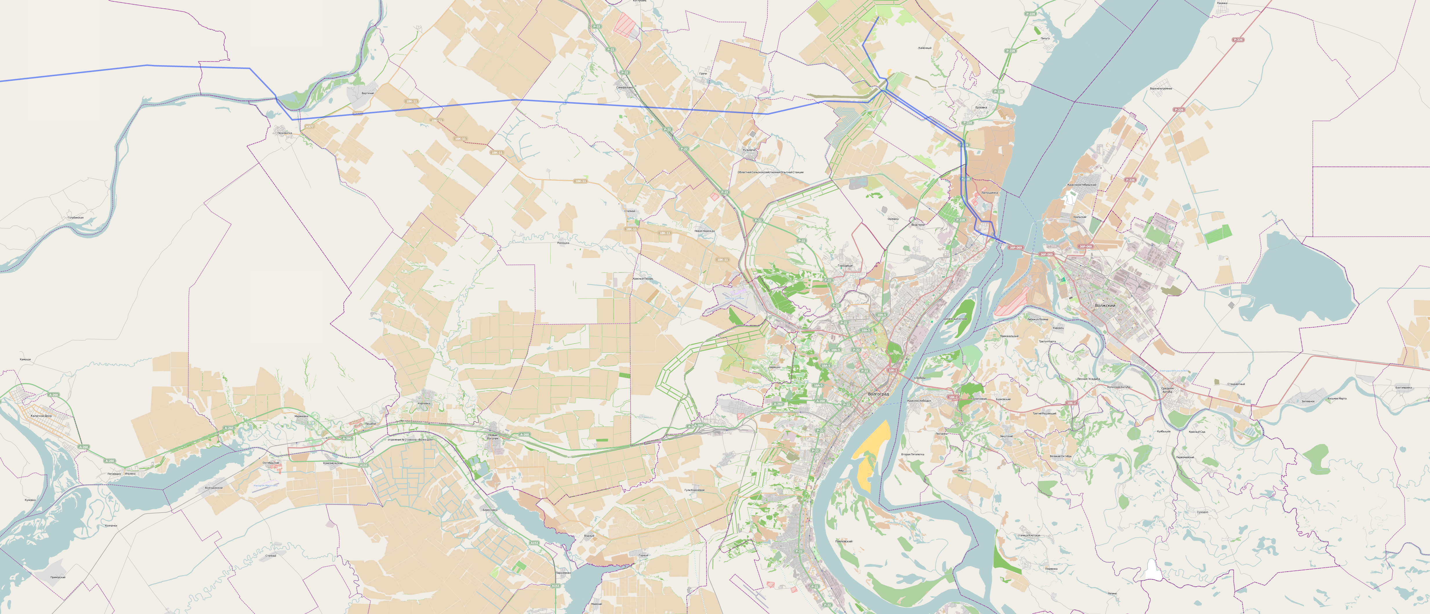 Map of eastern part of HVDC Volgograd-Donbass, including its electrode line, manufactured with Open-Streetmap